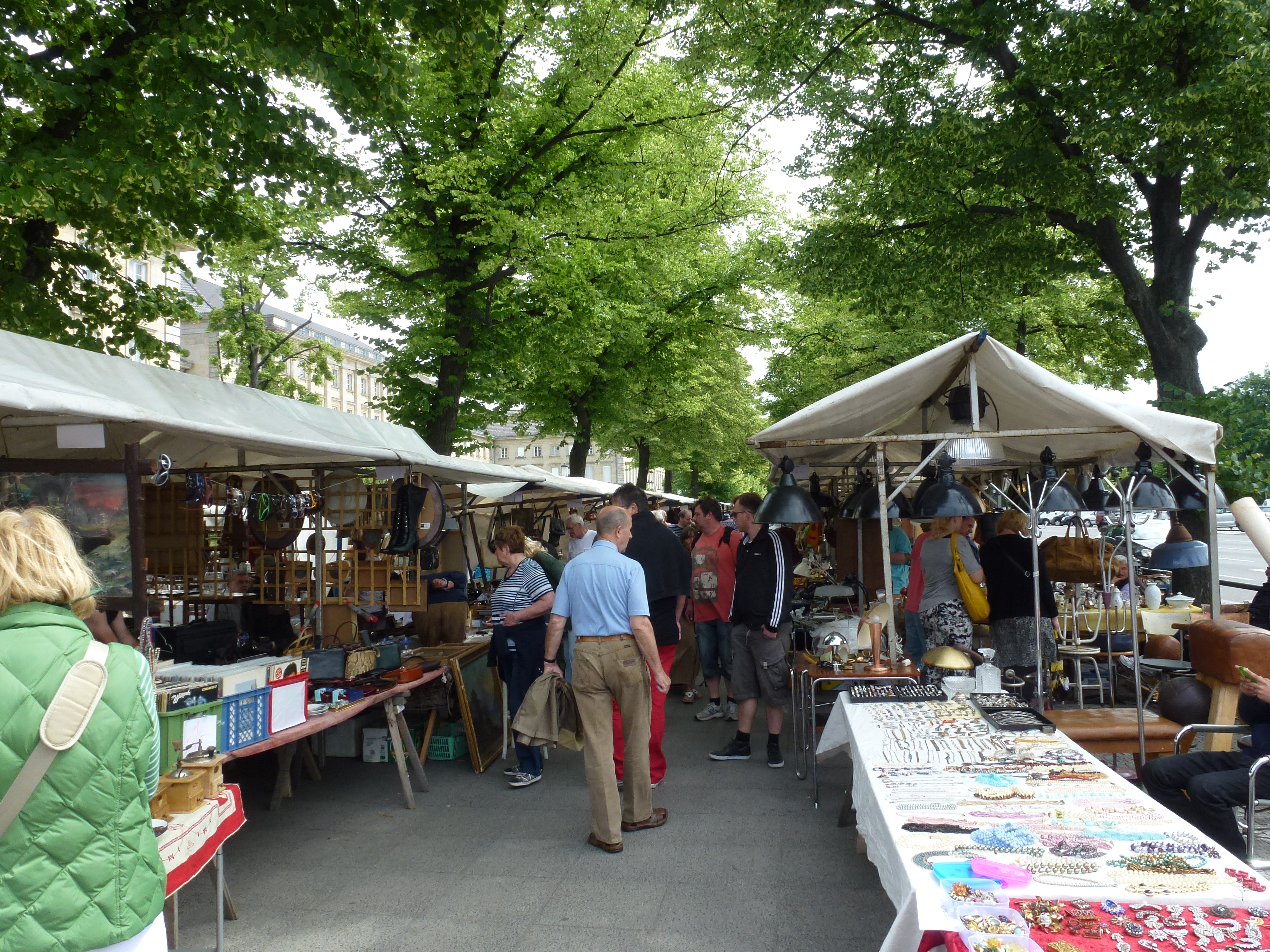 Berlin-Charlottenburg Straße des 17. Juni Flohmarkt